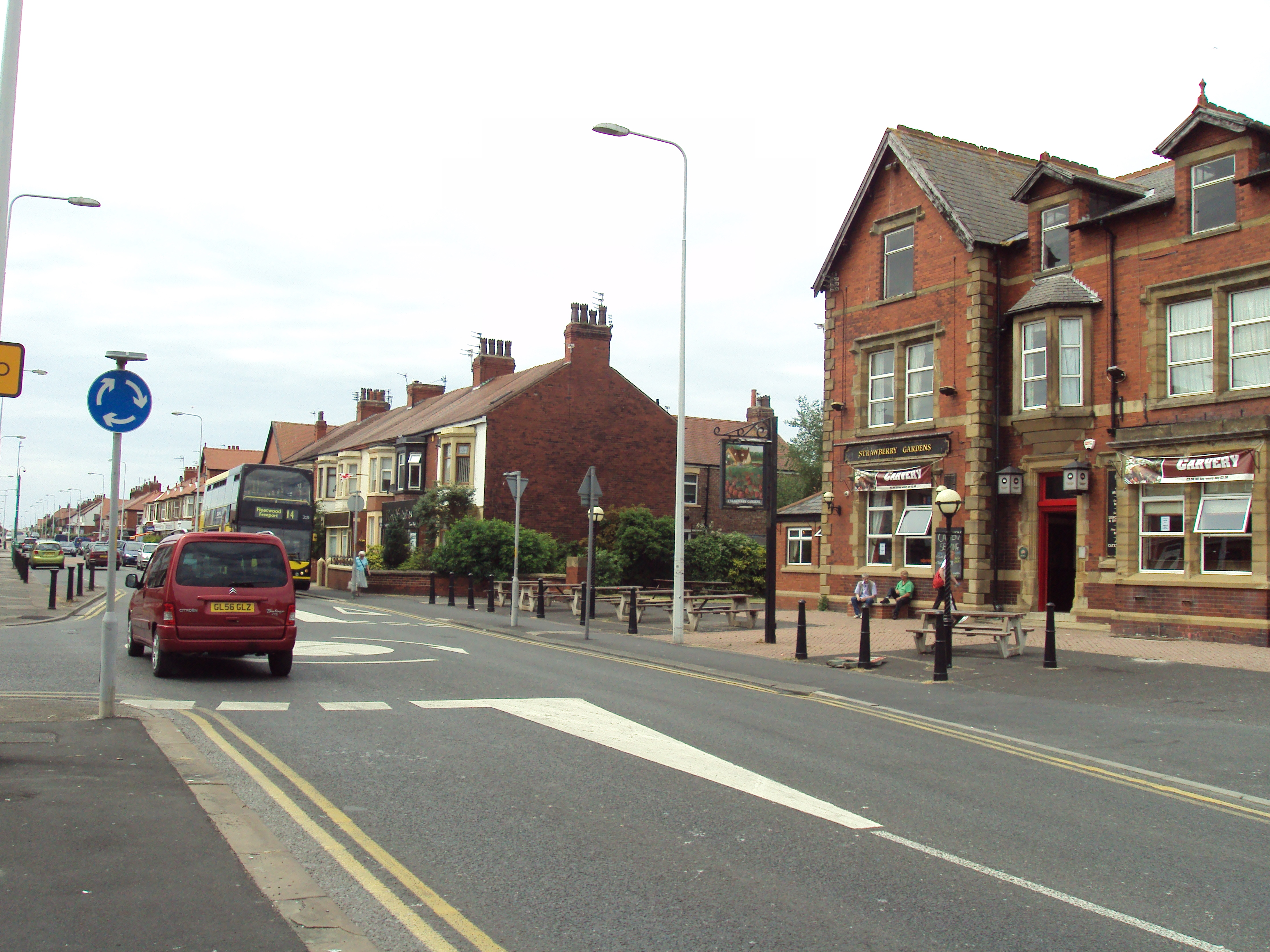 The A587 Poulton Road at Fleetwood, Lancashire, England. Near the Strawberry Gardens pub.